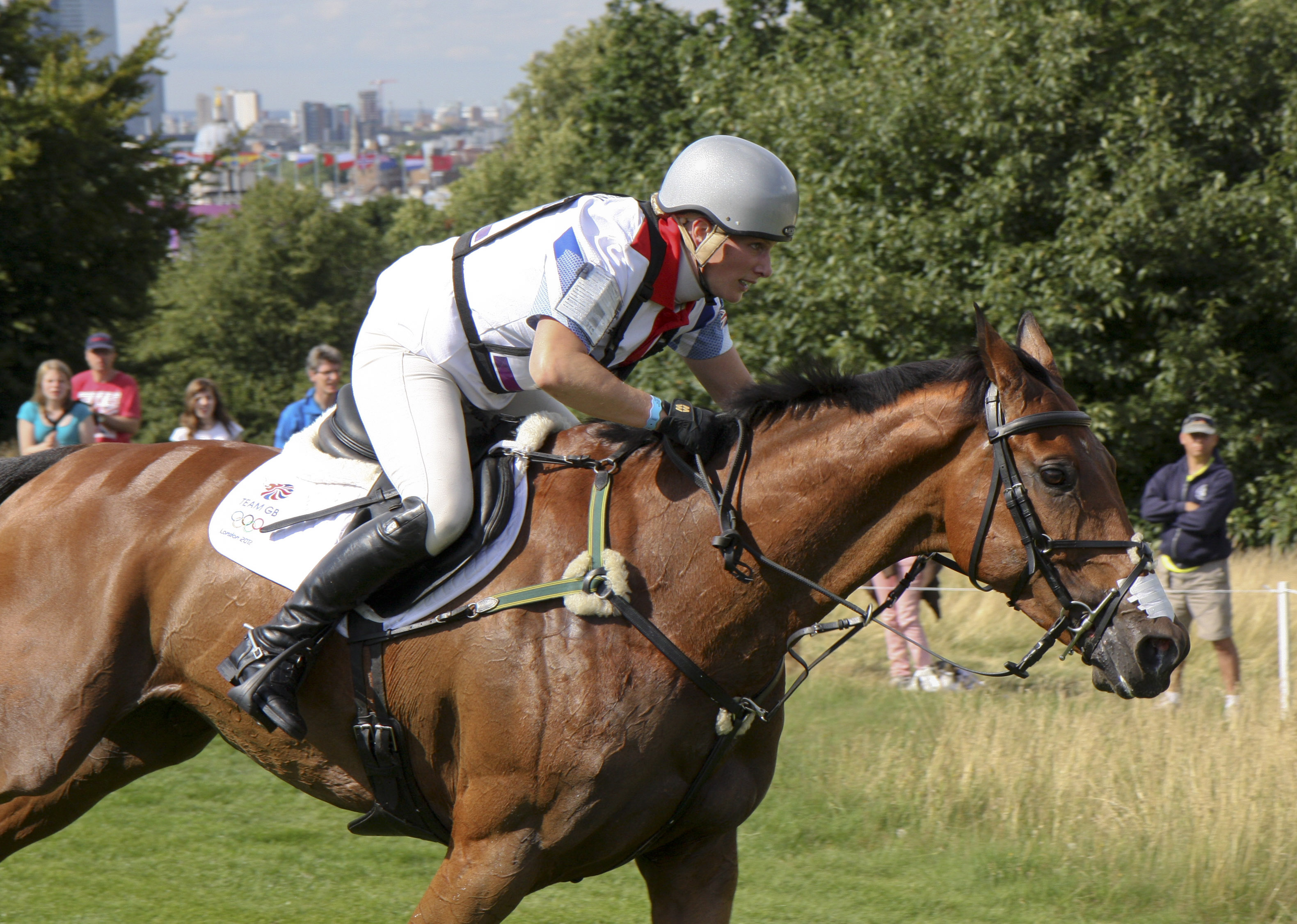 Zara Phillips riding High Kingdom, bib 40 Photos from the Olympic cross-country event in Greenwich Park on July 30th 2012